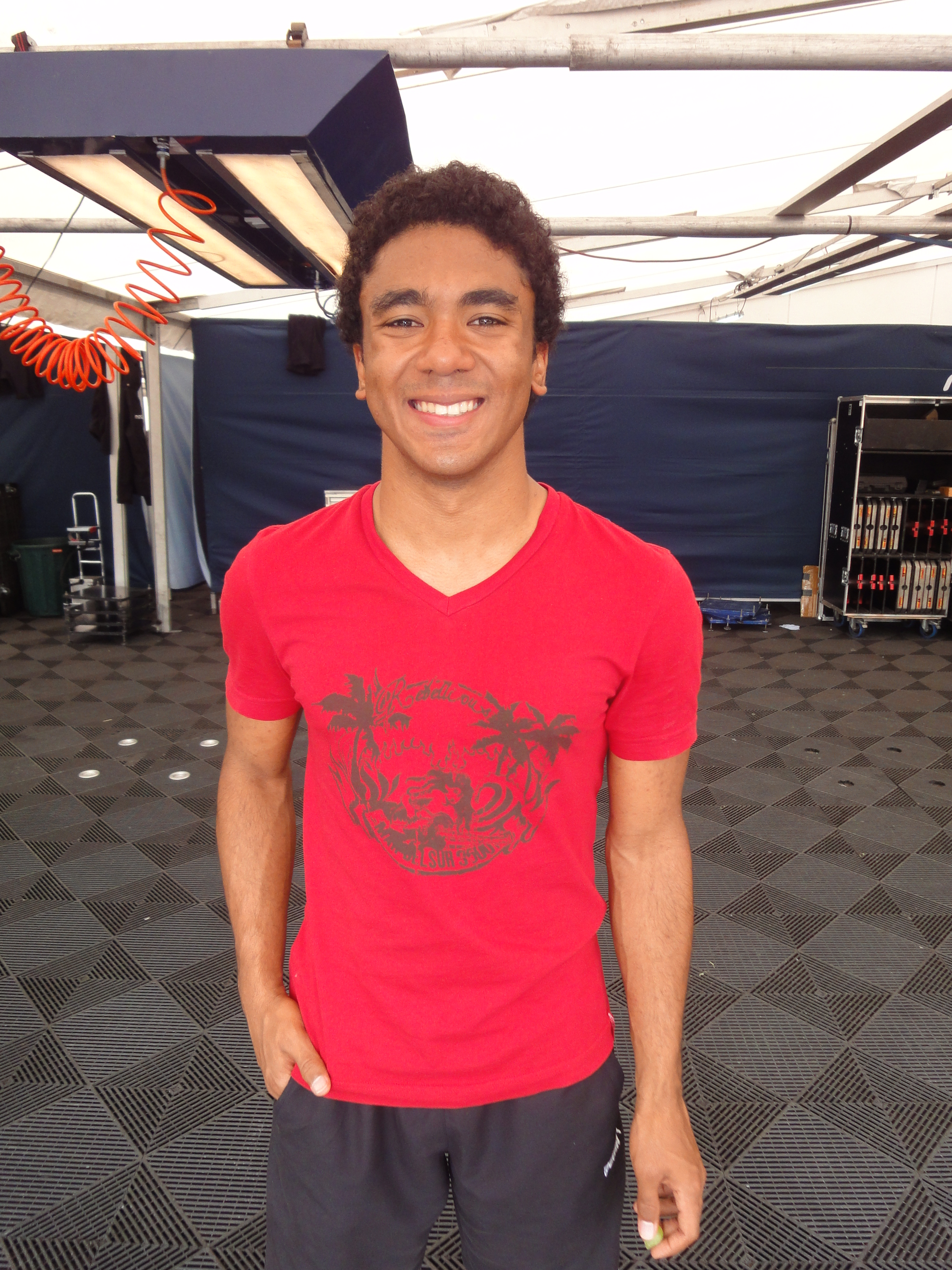 Luís Sá Silva: the photo was taken during 2010's ADAC GT Masters race weekend at Hockenheim